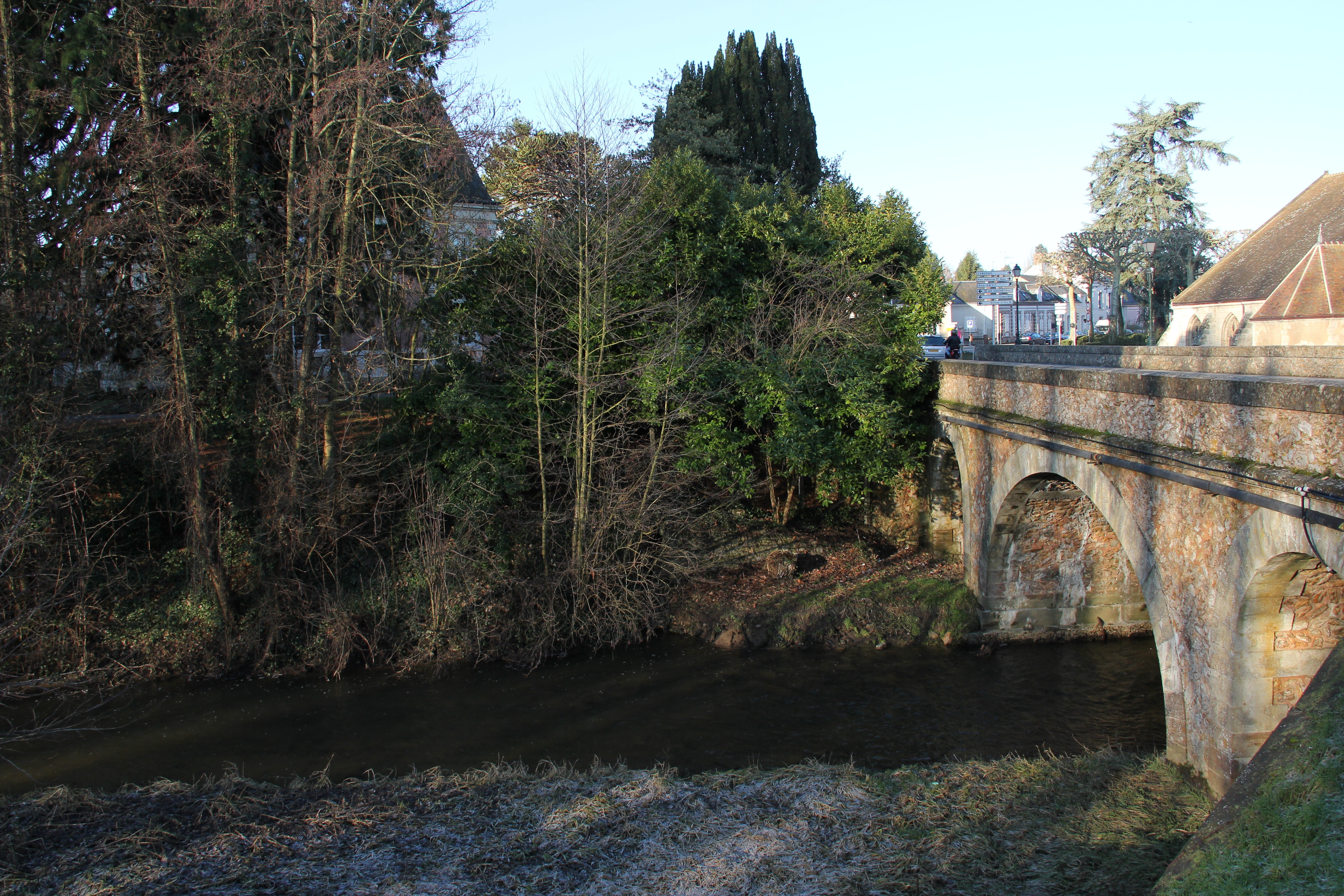 Saint Hilaire Bridge, in Nogent-le-Rotrou, Eure-et-Loir, France.